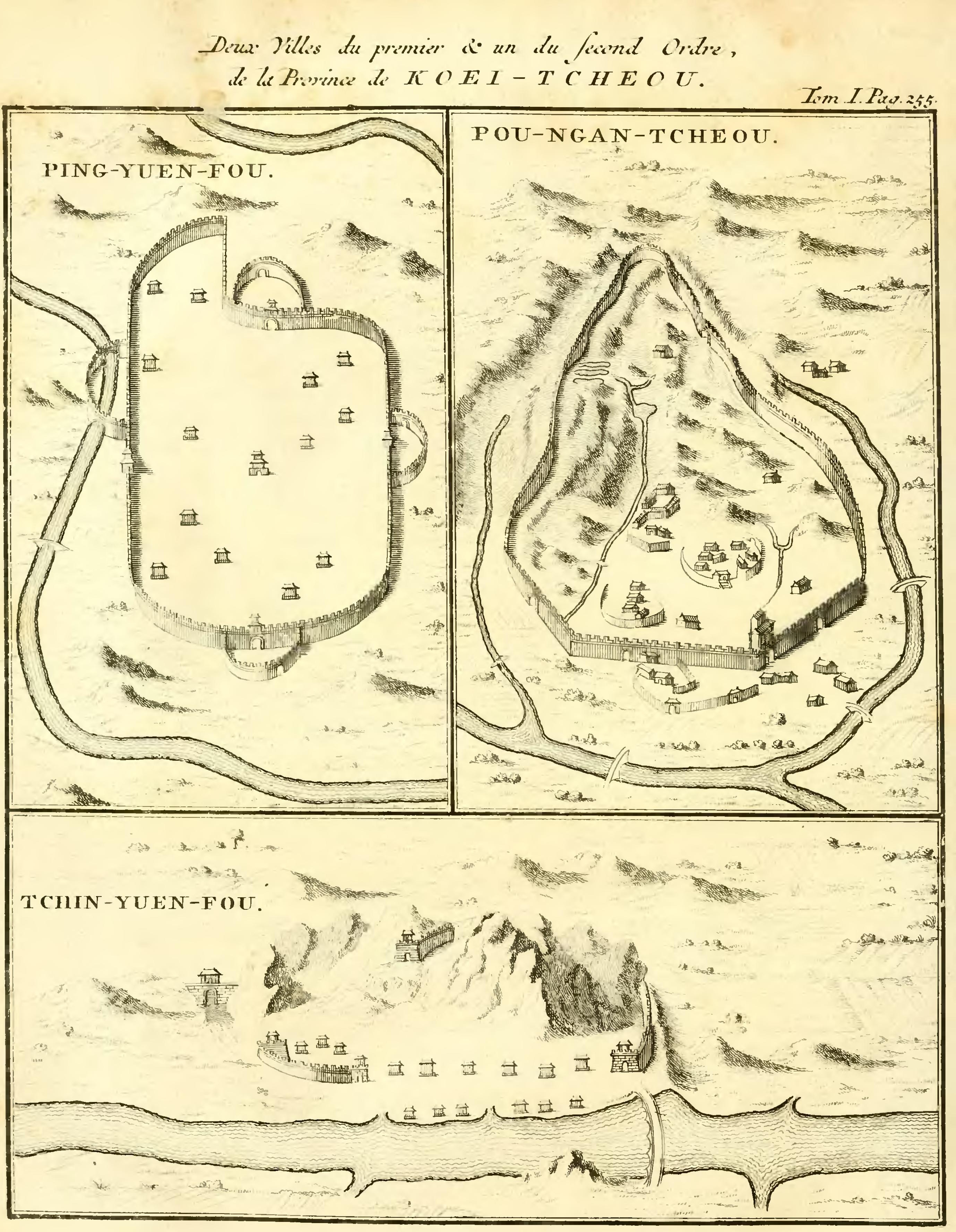 Towns of Guizhou: Pingyuanfu (平远府), now Zhijin; Pu'anfu (普安府); and Zhenyuanfu (镇远府). An engraving from La Haye's edition of Du Halde's Description of China, Vol. I, p. 255.